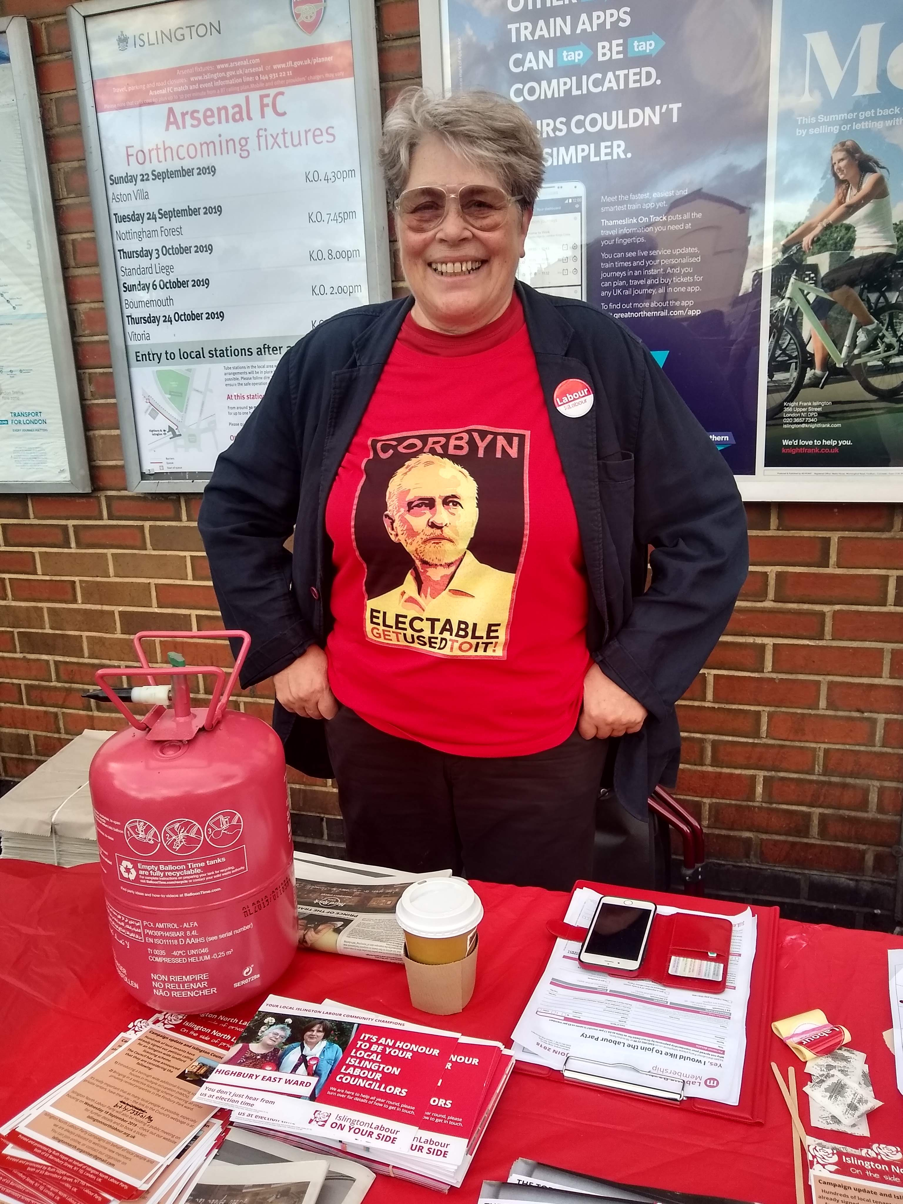 Islington Labour Party campaigners outside Highbury & Islington station Sept. 2019.